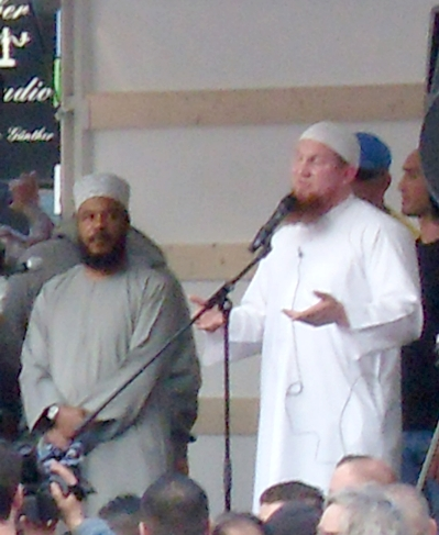 Bilal Philips (center, grey clothing) and Pierre Vogel (right, white clothing) speaking on a rally in Frankfurt/Main